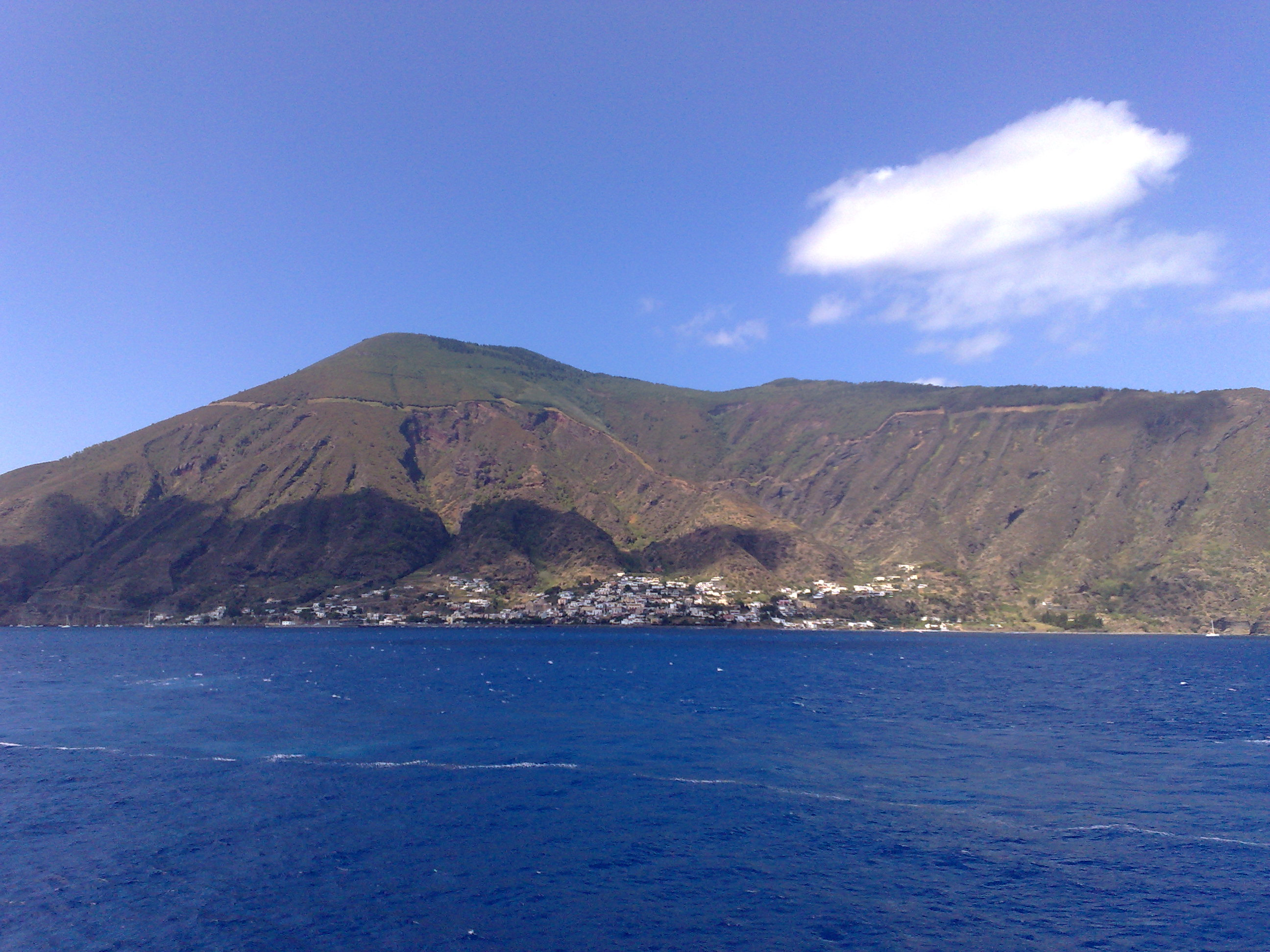 Santa Marina in Salina: landscape